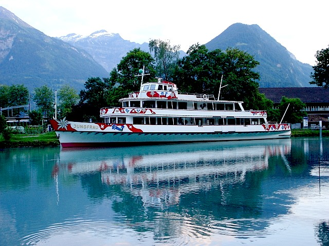 Interlaken.